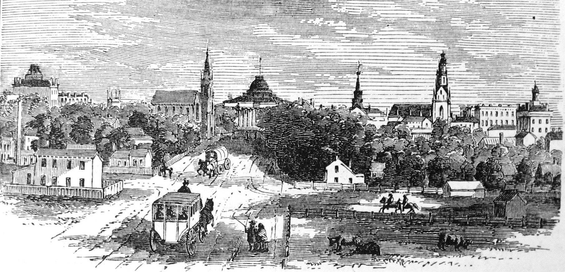 Madison, Wisconsin engraving